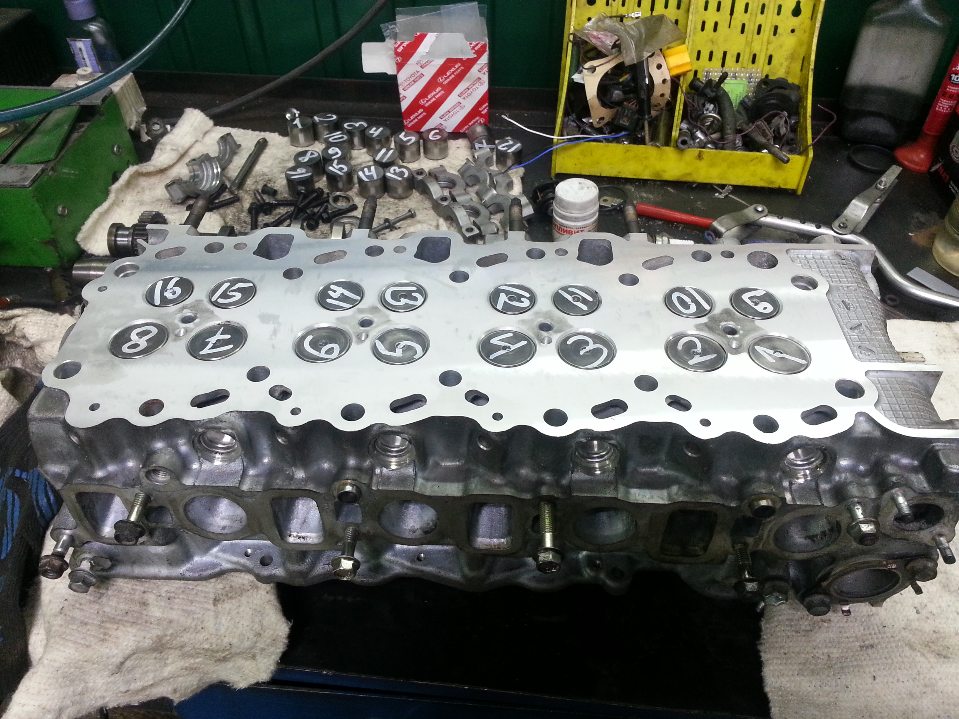 Cylinder head of Toyota 1KD-FTV engine